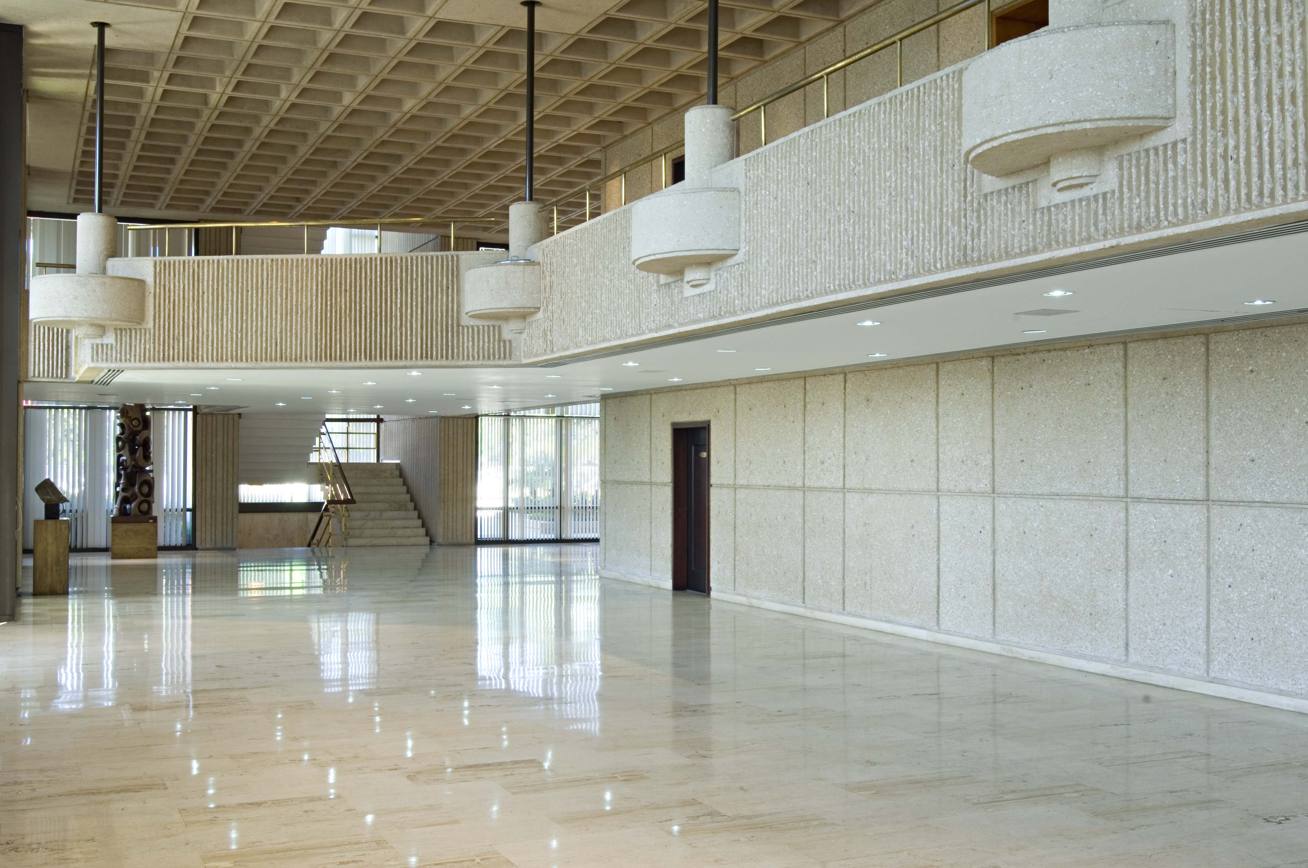 Interior of the building of the Central Bank of the Dominican Republic, in Santo Domingo